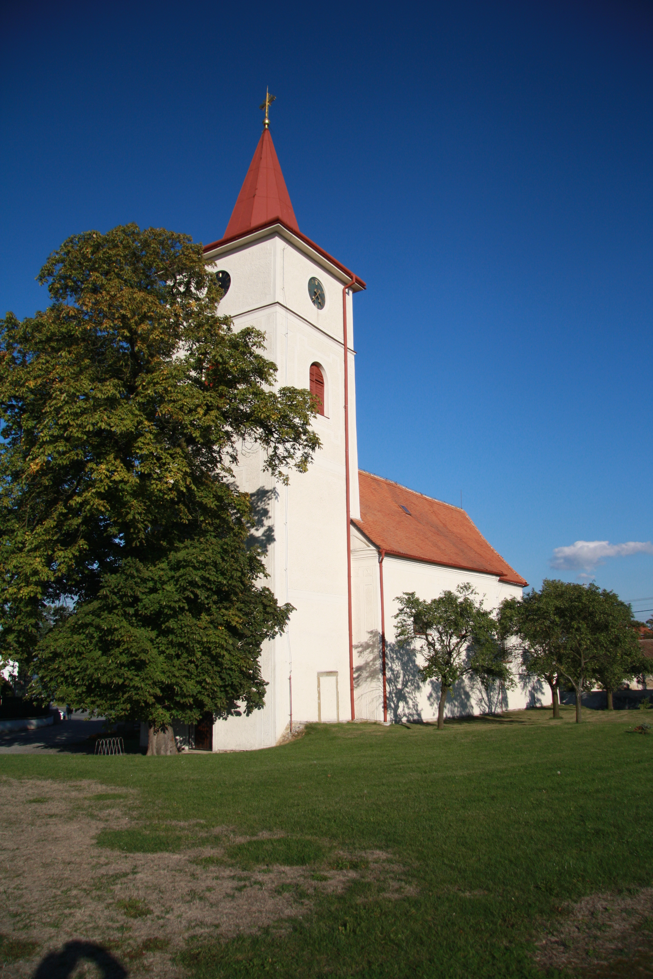 Overview of Church of Saint Luke in Myslibořice, Třebíč District.